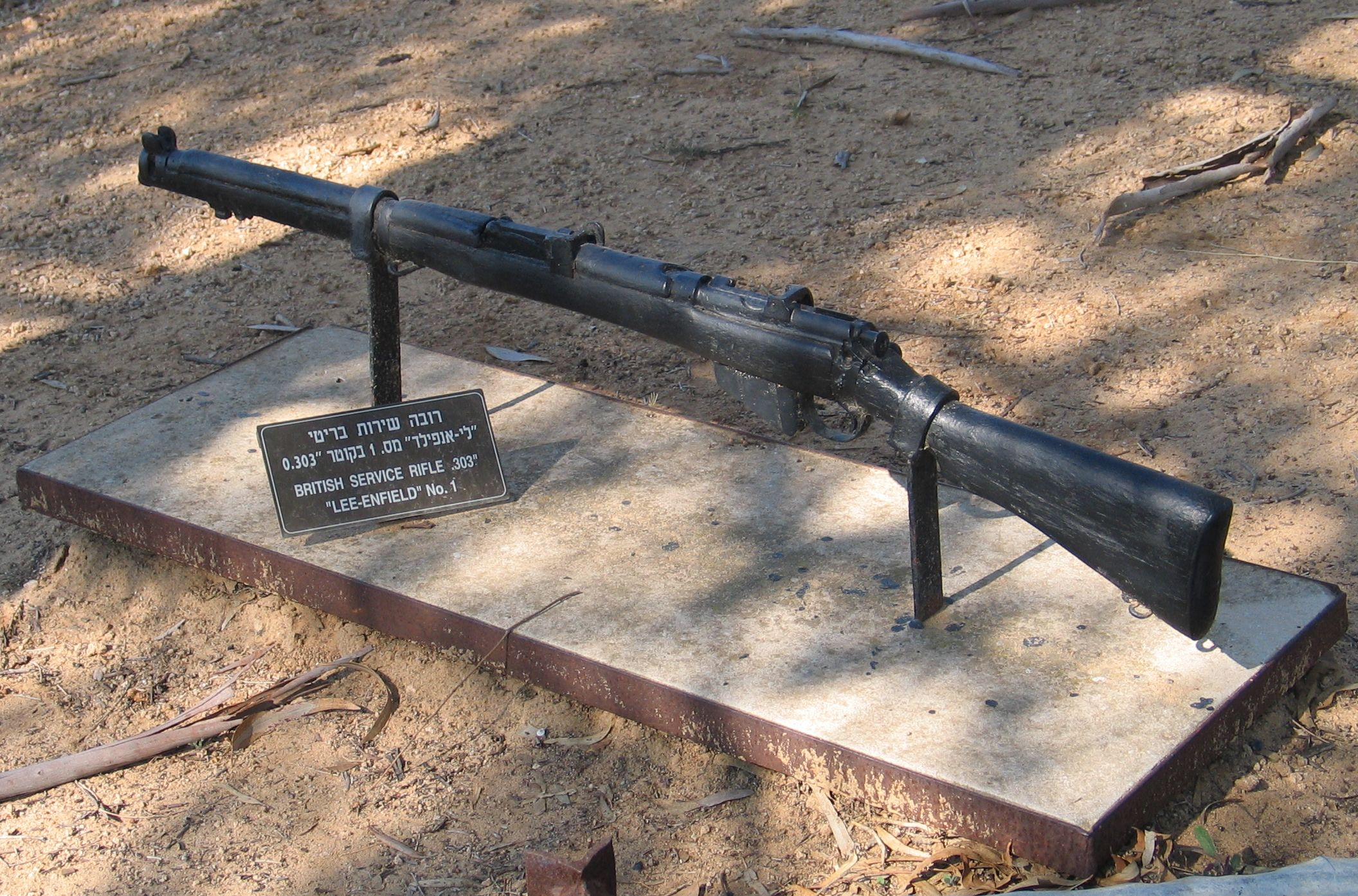 Lee-Enfield No 1 rifle at Yad Mordechai battlefield reconstruction site.